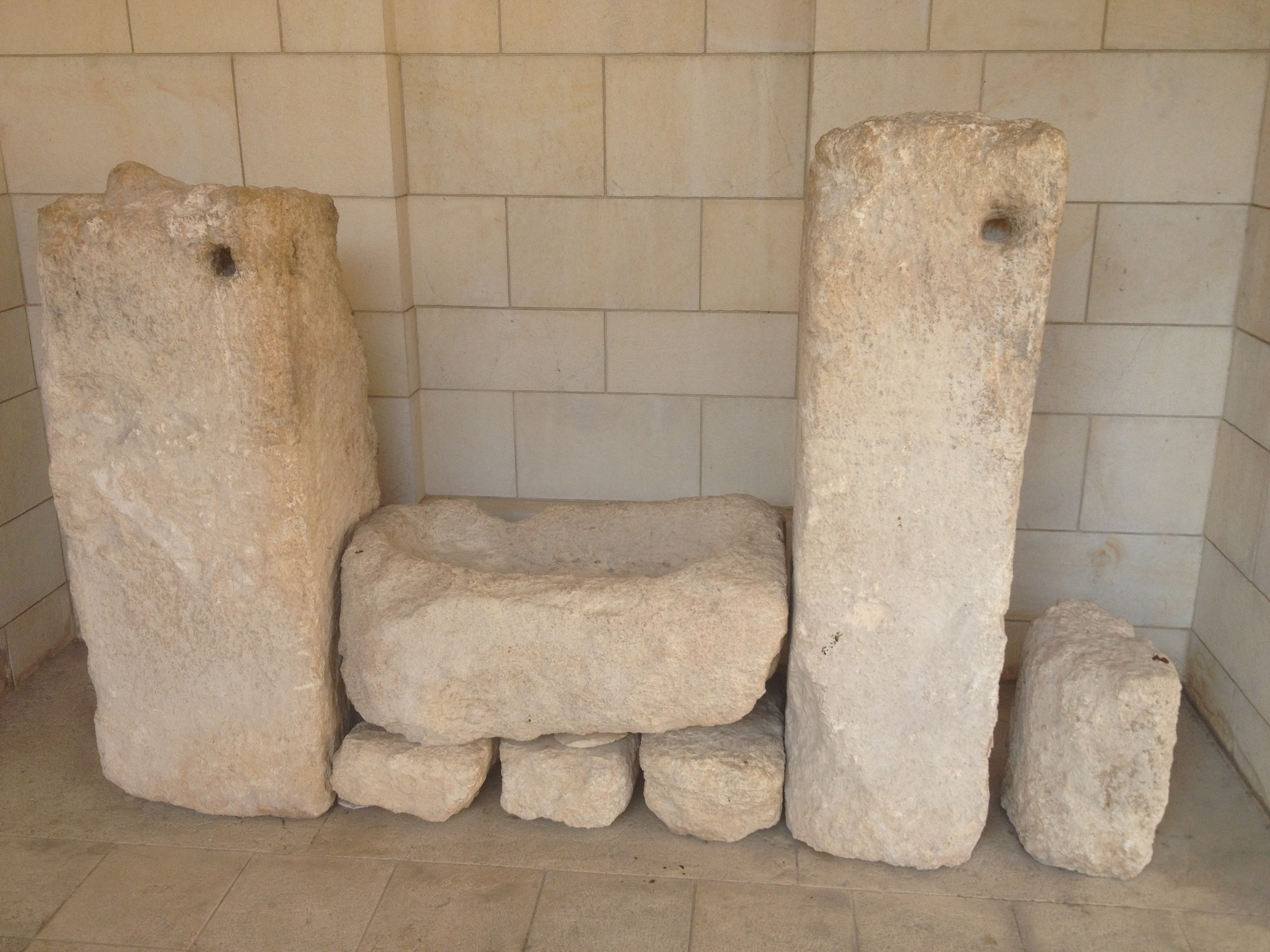 Feeding or water trough between two pillars from Megiddo, Rockefeller Museum, limestone, Iron Age II, Israelite period, 9th century BCE. found in remains of perhaps stables, store rooms or a marketplace. holes are for tethering the animals